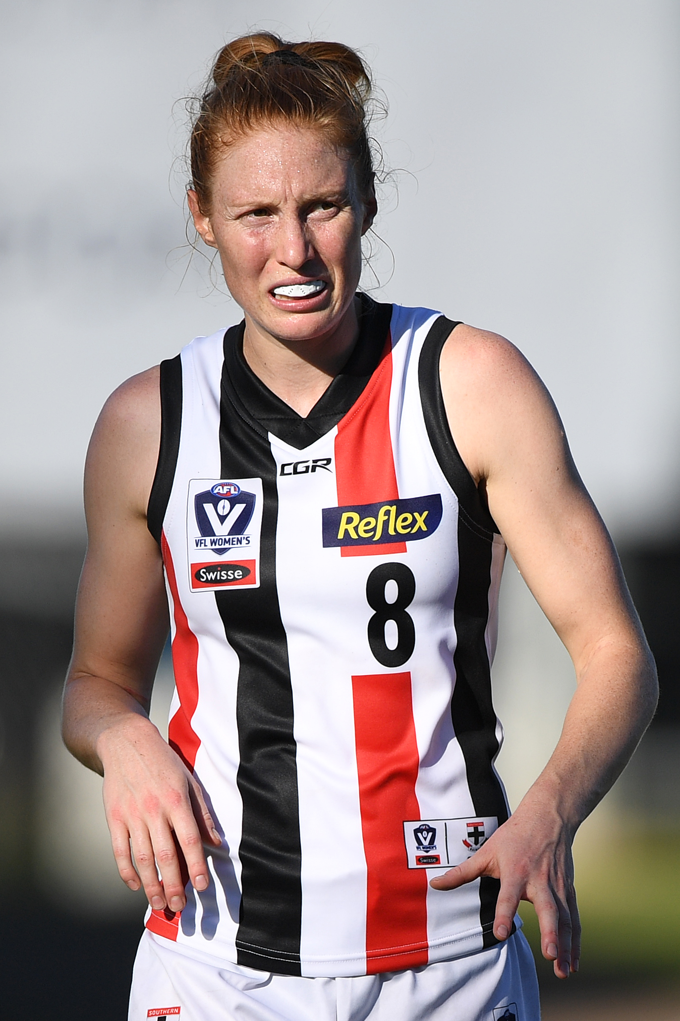 Alison Drennan of the Southern Saints during the 2019 VFLW round 2 match between NT Thunder and the Southern Saints at TIO Stadium on Saturday, 18 May 2019 in Darwin, Northern Territory.